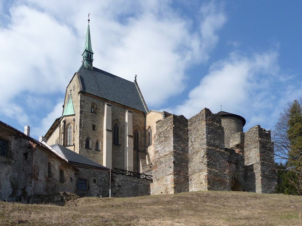 Sternberk Castle, Czech Republic